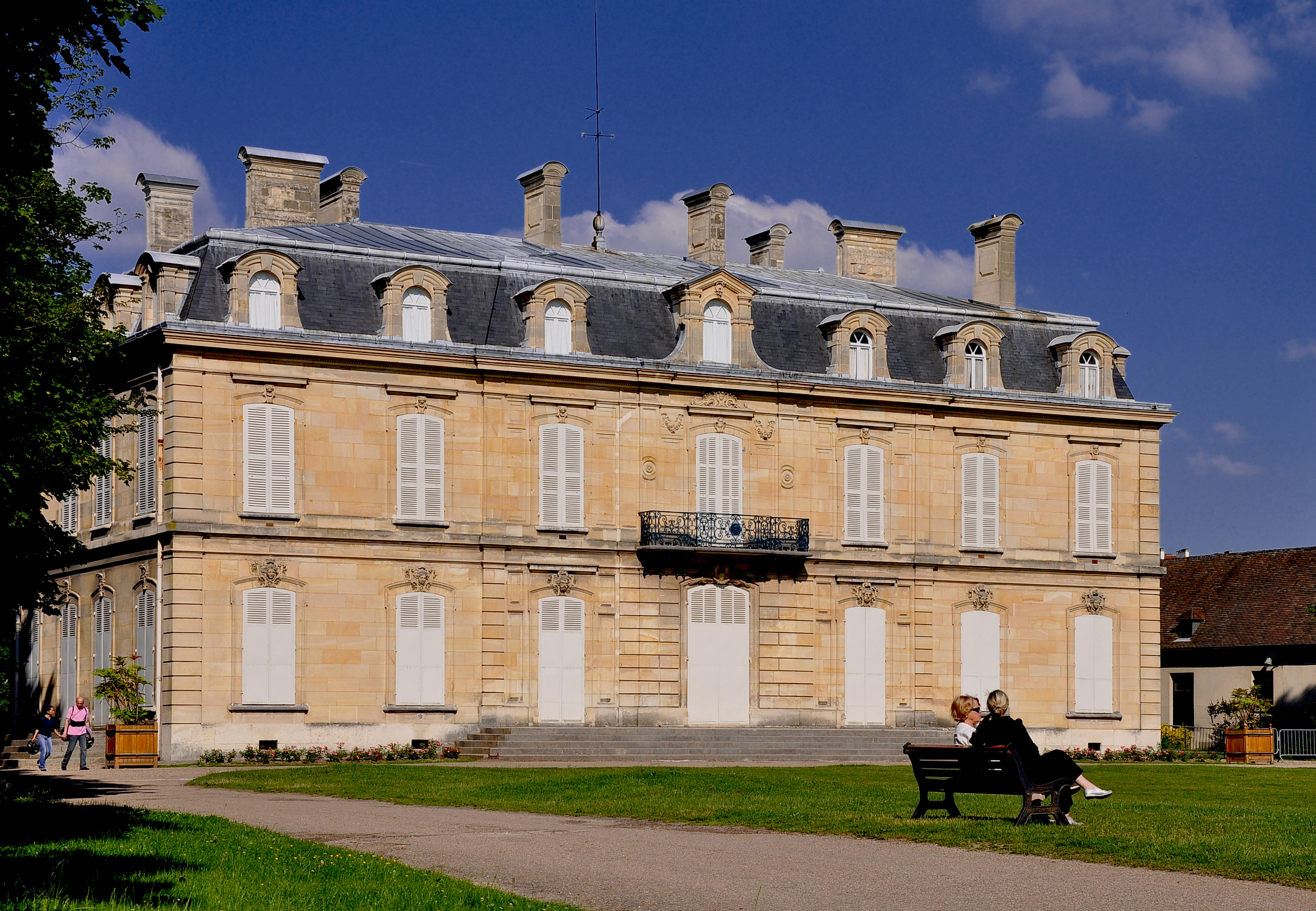 Chateau de Bois-Préau in Rueil-Malmaison, Hauts-de-Seine in France. This manor house is a part of the domain of Malmaison which belonged to Joséphine de Beauharnais, wife of Napoleon Ier Bonaparte. Today it accommodates a napoleonic museum.